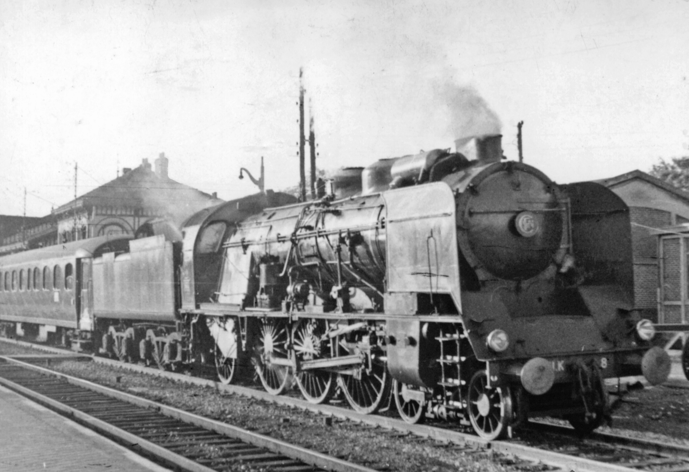 A PLM 4-6-2 on an evening express to Paris calls at Abbeville (Somme), 1956.